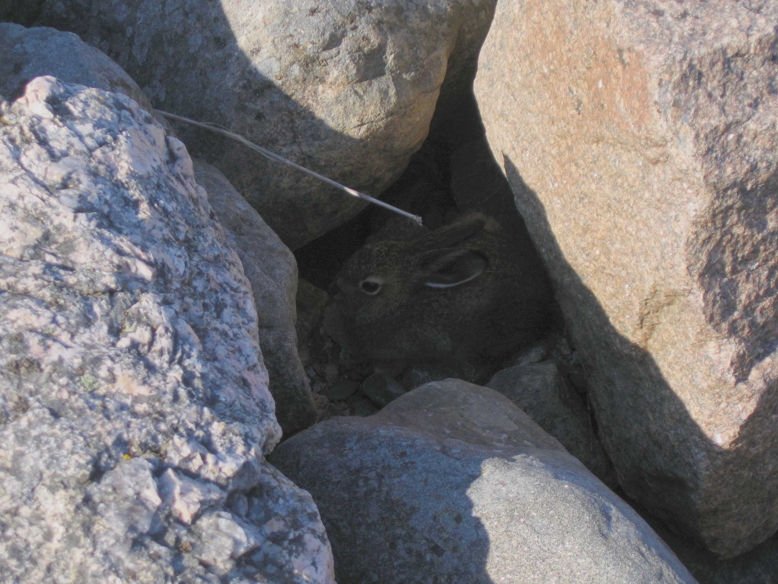 A young European Brown Hare (Lepus europaeus) hiding between rocks. Photo taken in Sipoo, Finland.